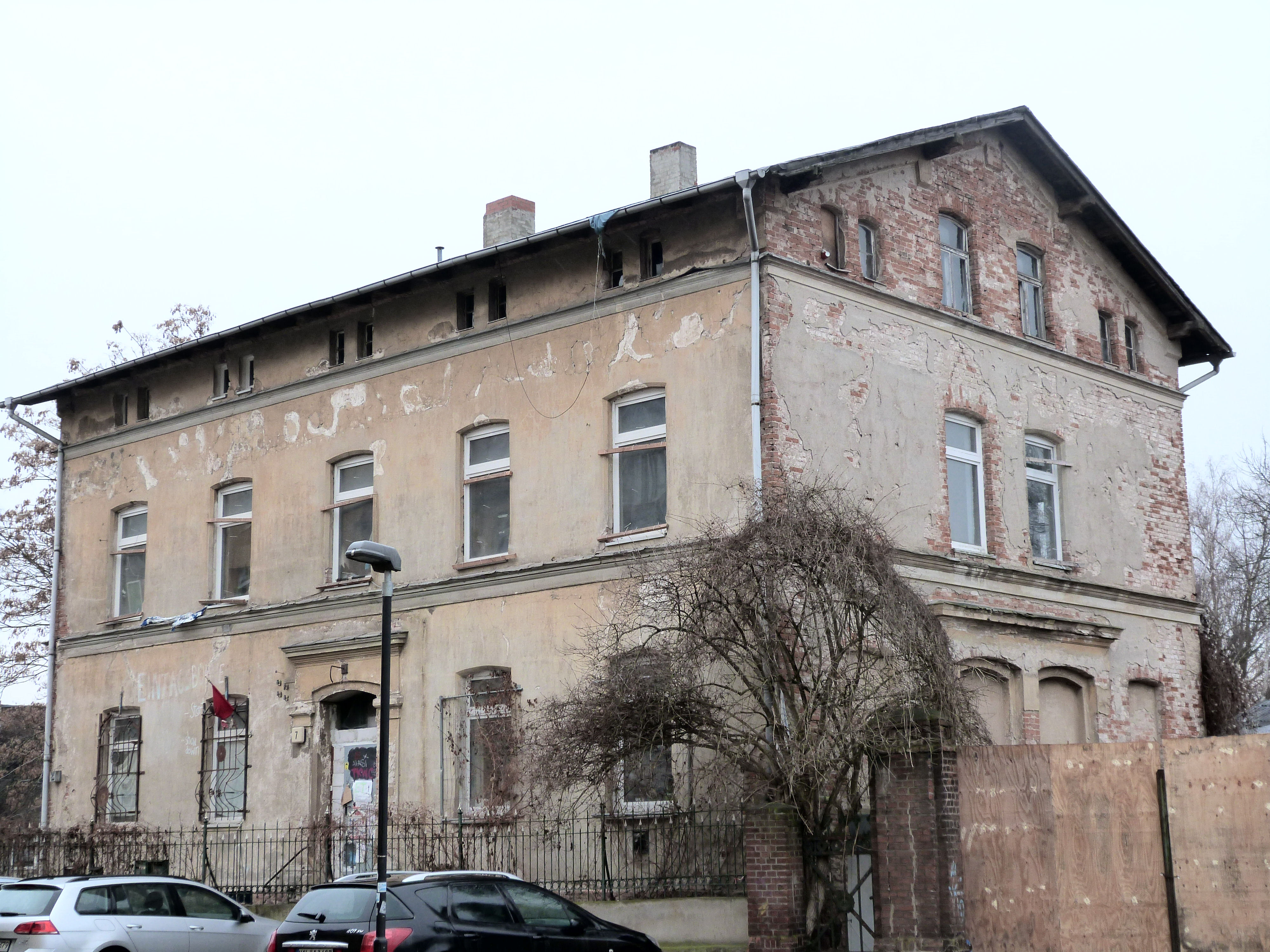 Residential building for officials of the first municipal gasworks, built in 1856, Hafenstrasse No. 7, Halle (Saale)